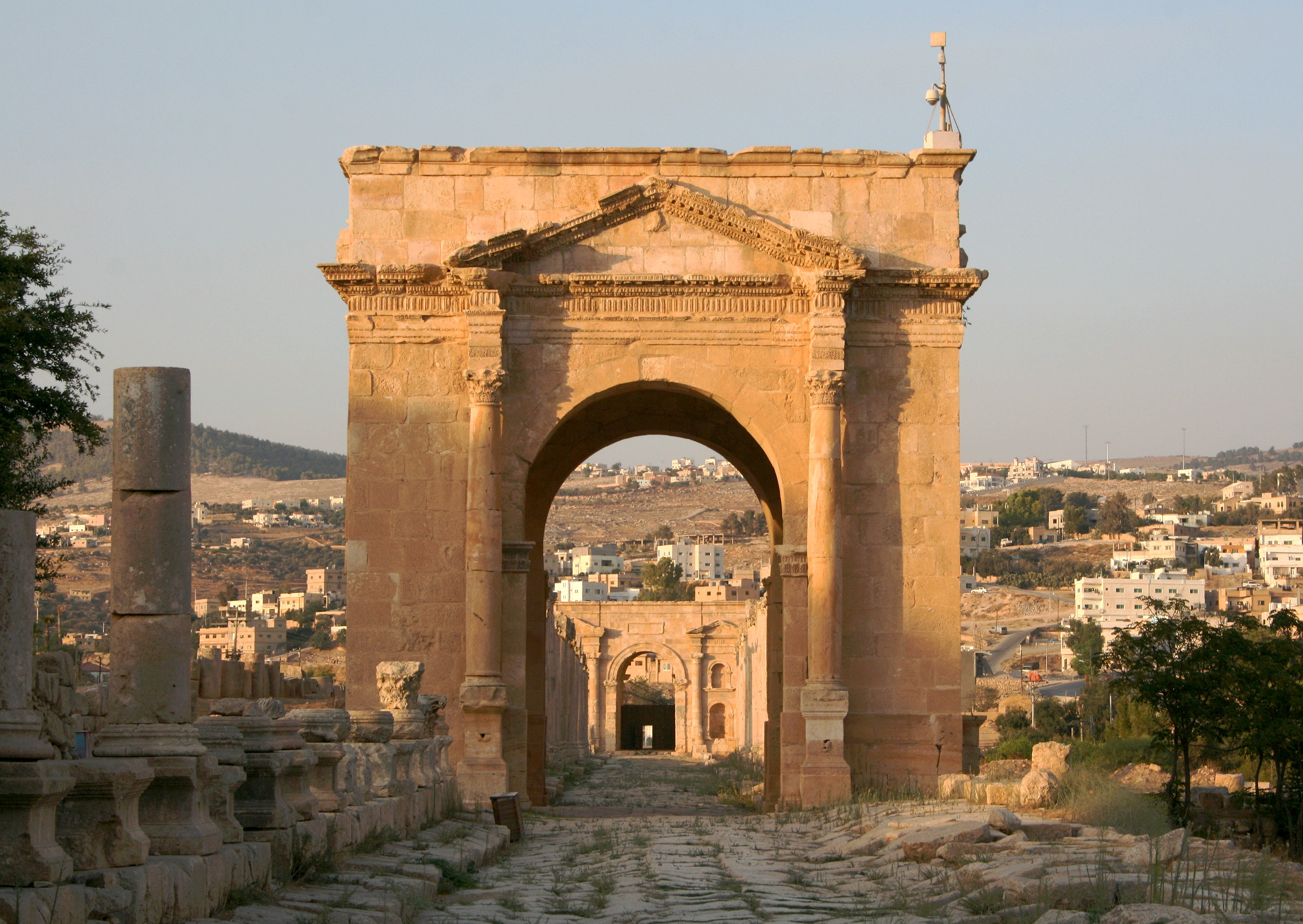 North Tetrapylon, Jerash, Jordan1